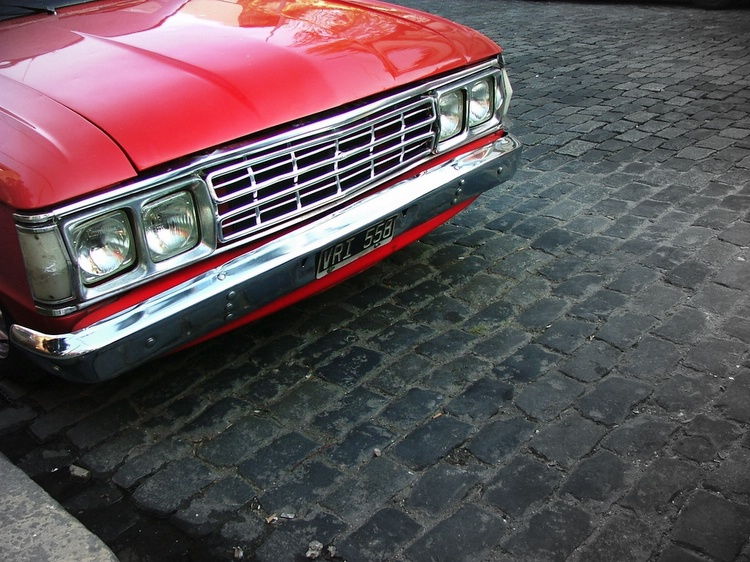 Argentinas Ford Falcon fourth restyling in 1973